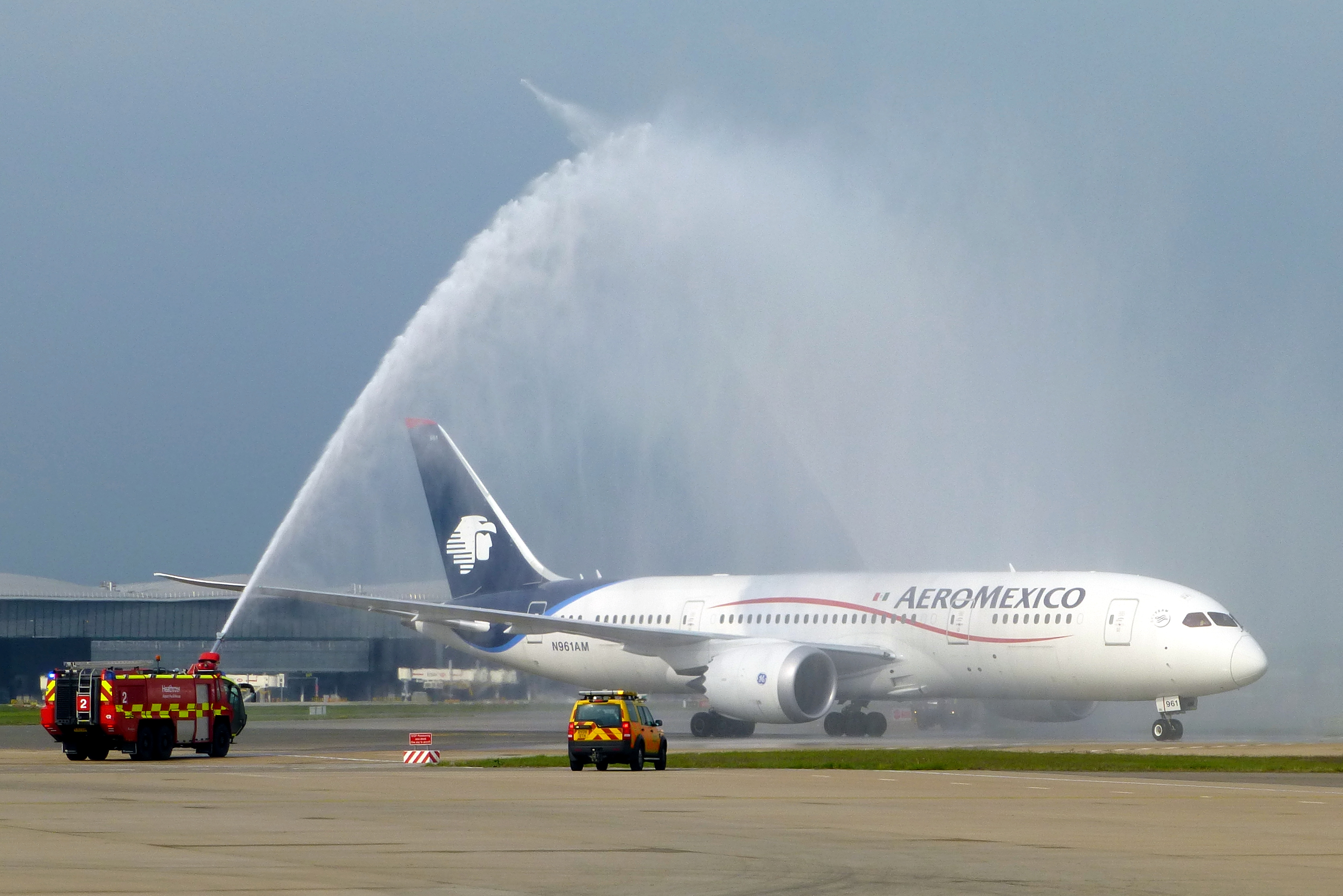 N961AM Boeing 787 Dreamliner AeroMexico passing under the water cannon salute for its inaugural B787 service to LHR.